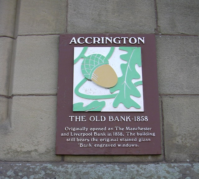 Plaque, Eagle Street